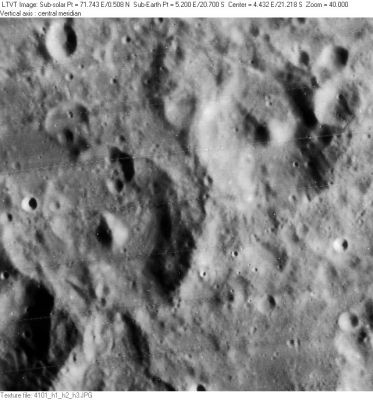 LO-IV-101H The two similar craters are Faye (left) and Donati (right). The shadowed region in the lower left is the eastern part of 46-km Delaunay.